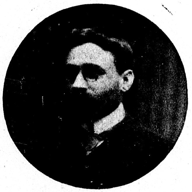 Konrad Leon Gliński